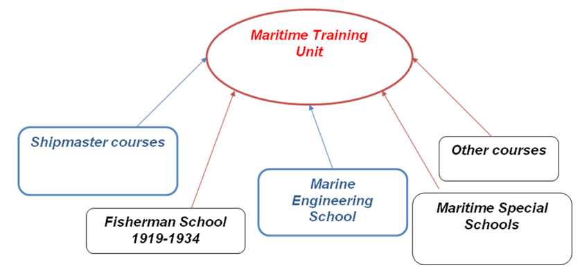 Scheme